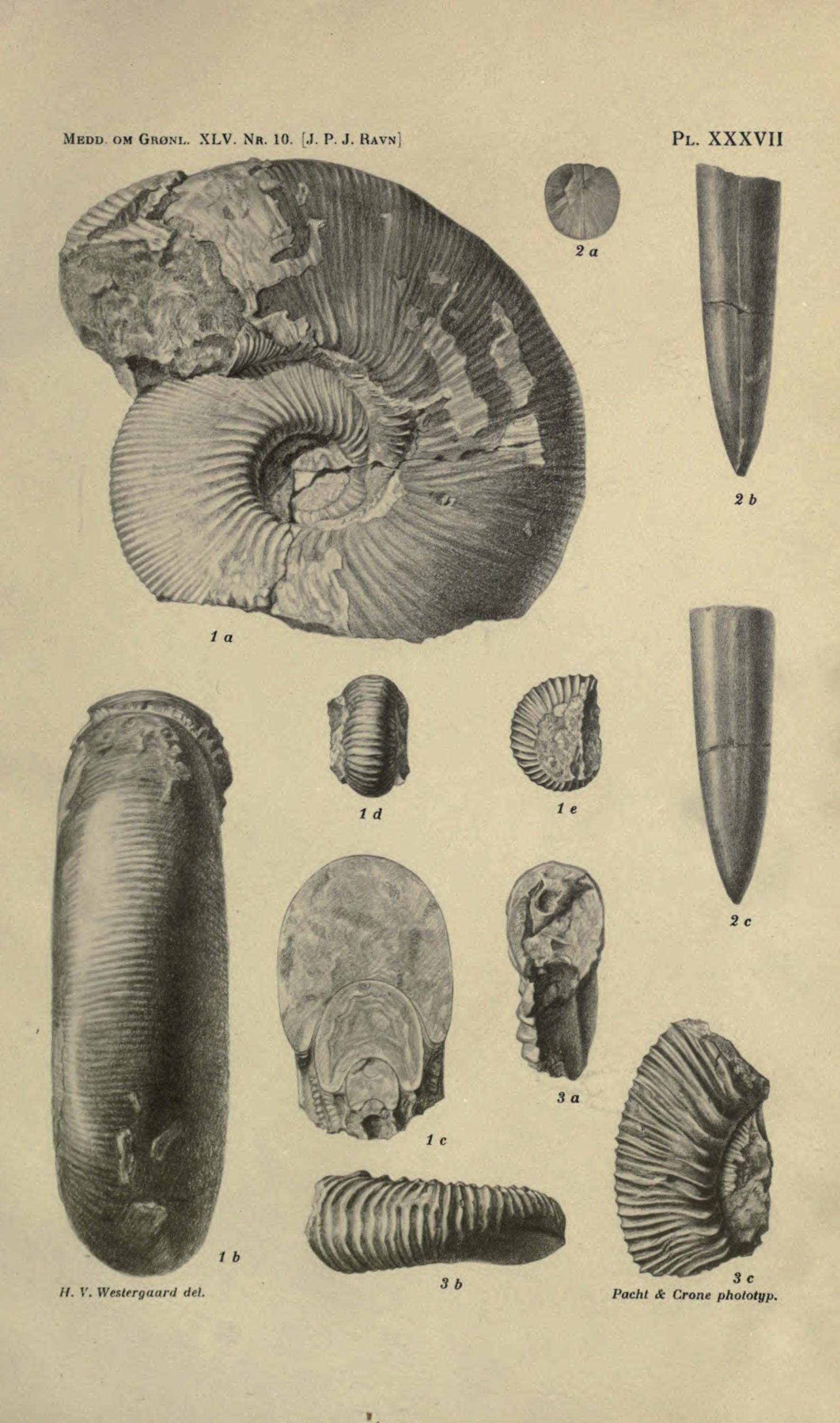 On Jurassic and Cretaceous fossils from north-east Greenland / by J.P.J. Ravn.